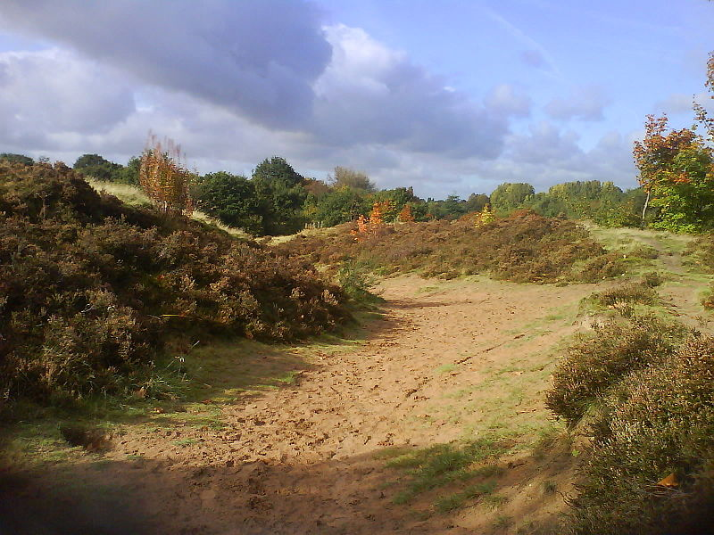 Kersal Moor in the sandy area